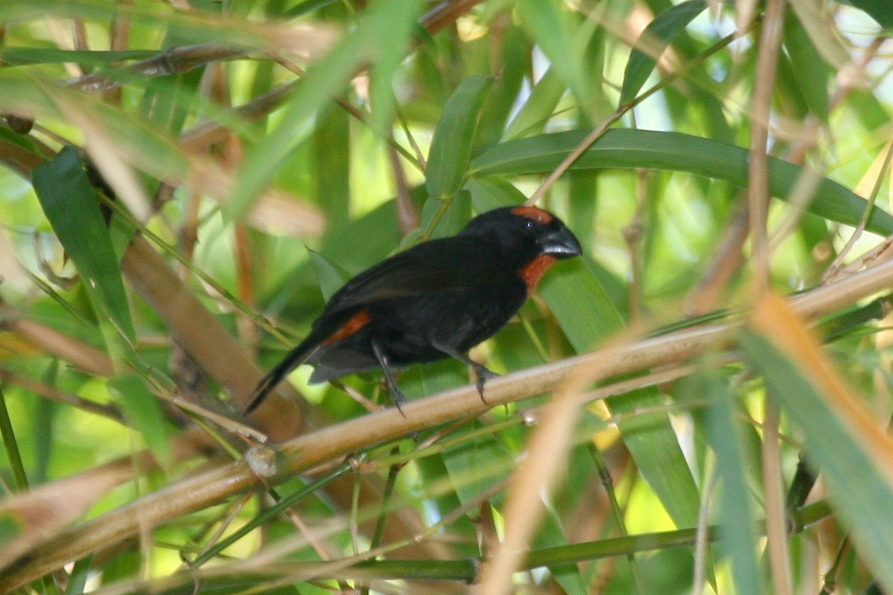 Greater Antillean Bullfinch (Loxigilla violacea) in Jamaica.